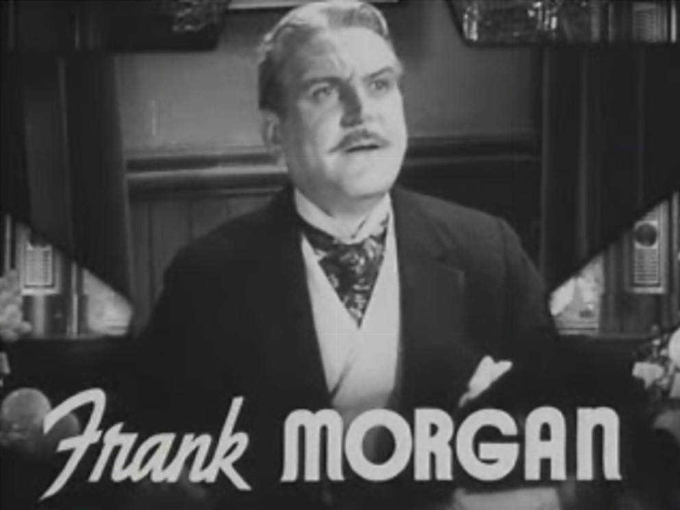 Cropped screenshot of Frank Morgan from the trailer for The Great Ziegfeld